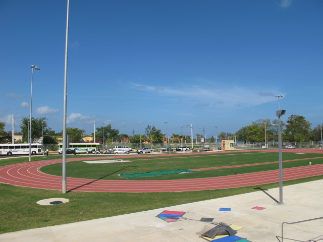 foto taken by me of estadio centroamericano